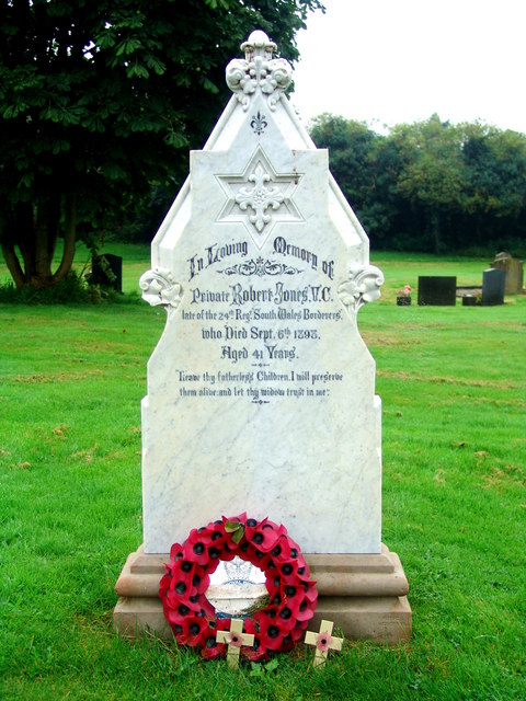 Headstone in St Peter's parish churchyard, Peterchurch, Herefordshire of Pte Robert Jones VC (1857–98), 24th Regiment of Foot, decorated for his role in the Battle of Rorke's Drift in the Anglo-Zulu War